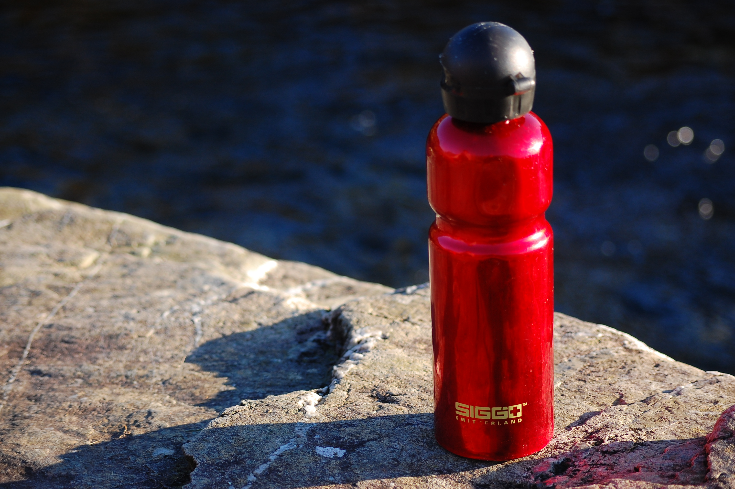 Red Sigg water bottle, unedited.